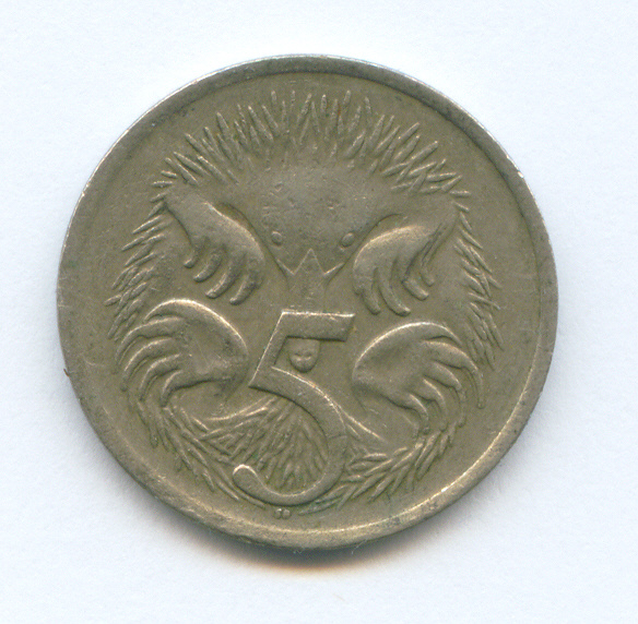 Australian 5 cent piece from 1967.